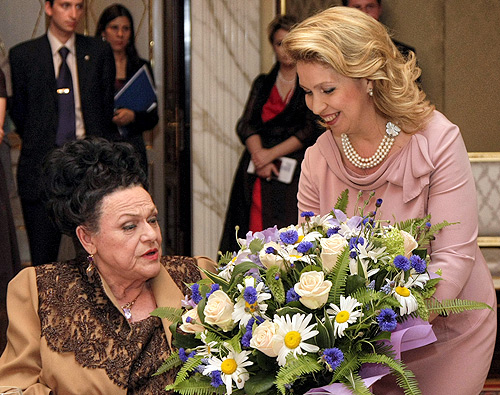 MOSCOW. Svetlana Medvedeva wishes singer Lyudmila Zykina a happy birthday.